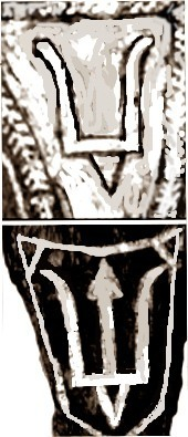 A ceremonial engraved and silvered axe from Shekshovo with trident and a bident - Symbols of the Rurikids - reconstruction drawing